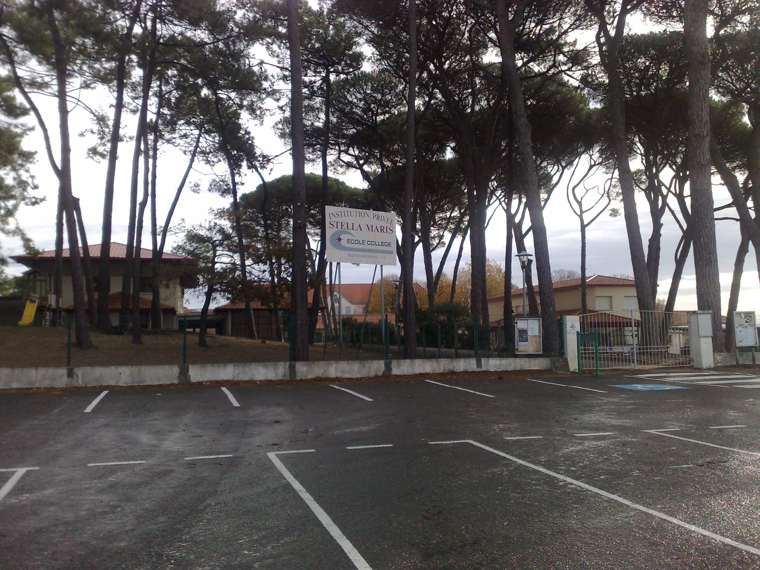 Stella Maris Catholic College, Angelu/Anglet, Lapurdi/Labourd, Basque Country.